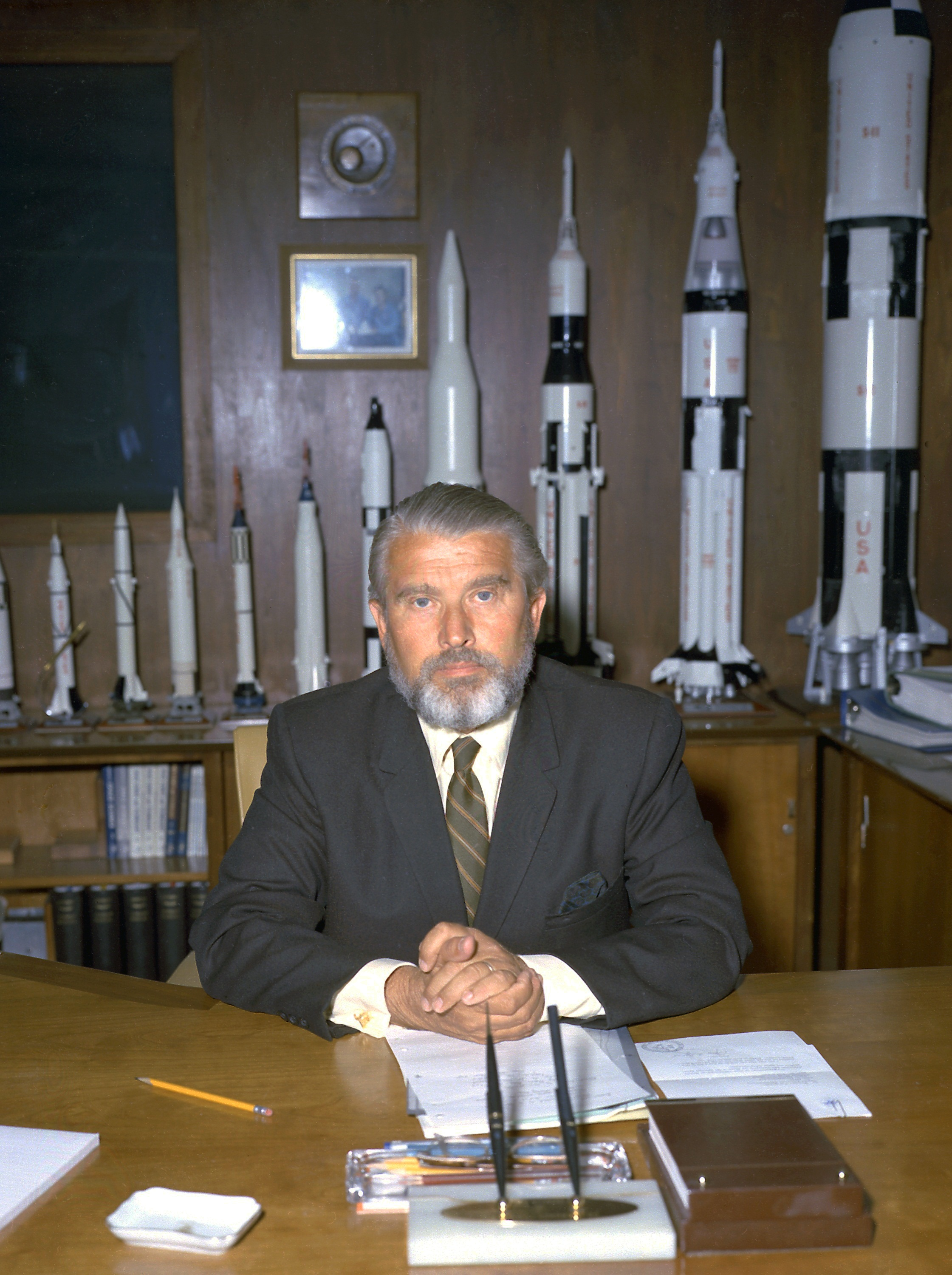 Upon return from a Bahamas vacation, Dr. von Braun pulled a practical joke upon his associates by sporting a beard. From the left to right the models in the backgrounds are of a Juno II, Mercury-Redstone, Mercury-Atlas, Gemini-Titan II, Saturn I Block I, Saturn I Block II, and Saturn IB.